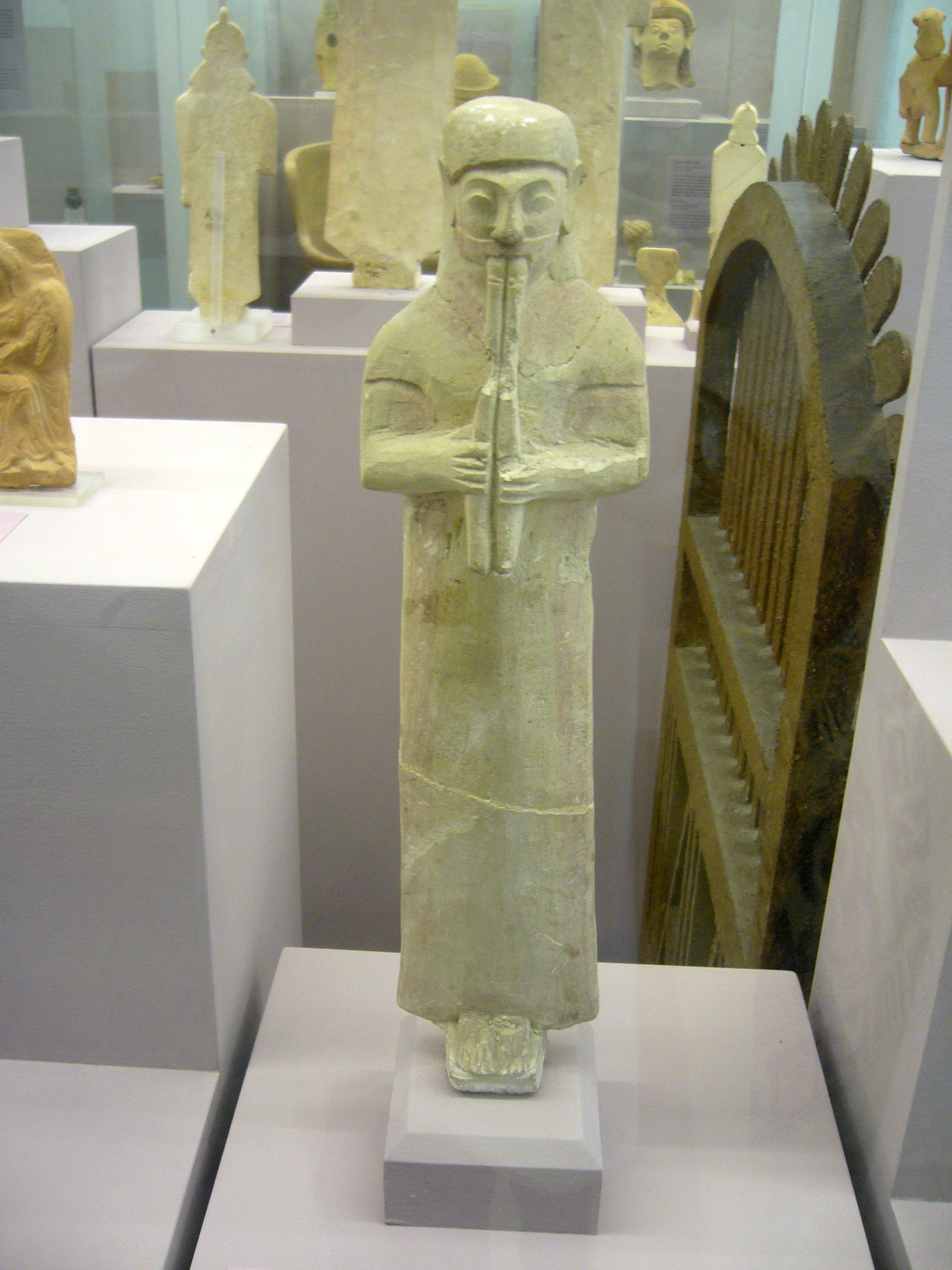 Limestone statuette of a musician, playing a double flute (aulos). Cypro-Archaic II (600-475 B.C.). Unknown provenance. Archaeological Museum, Nicosia, Cyprus